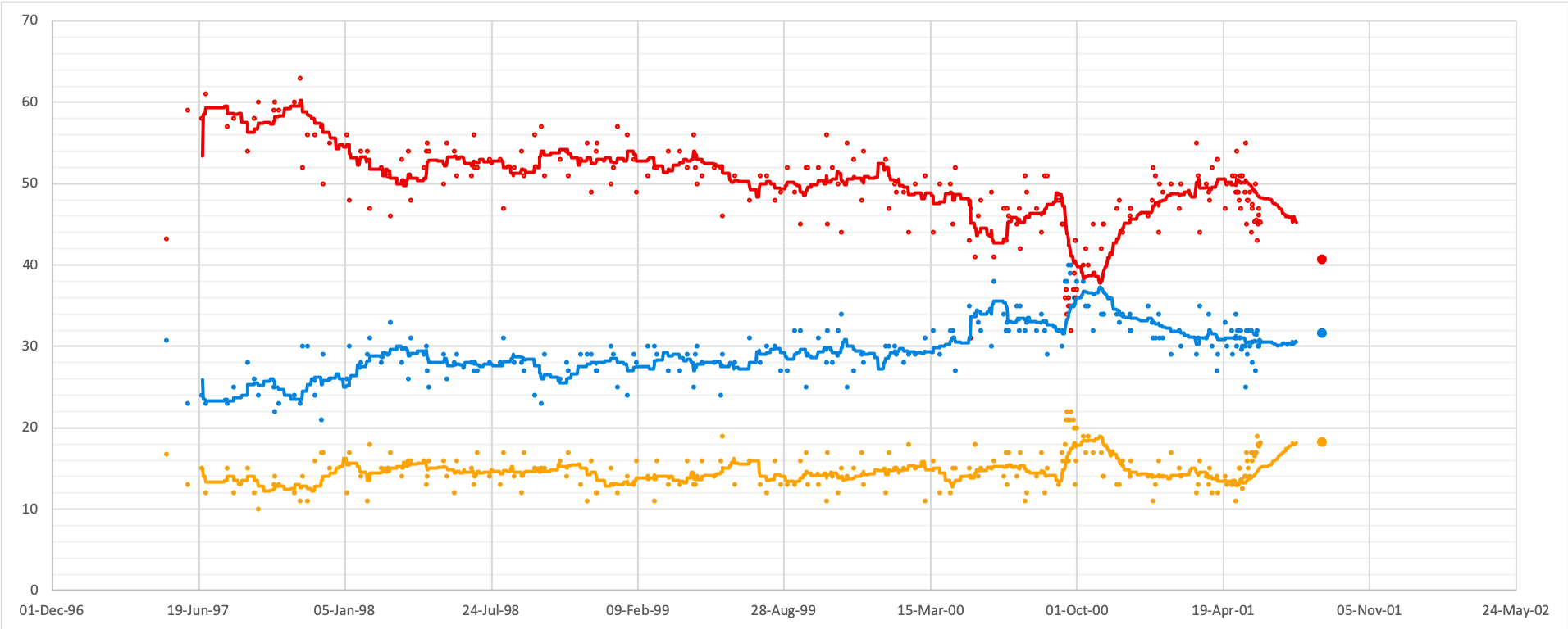 Red: Labour, blue: Conservative, amber: Liberal Democrat